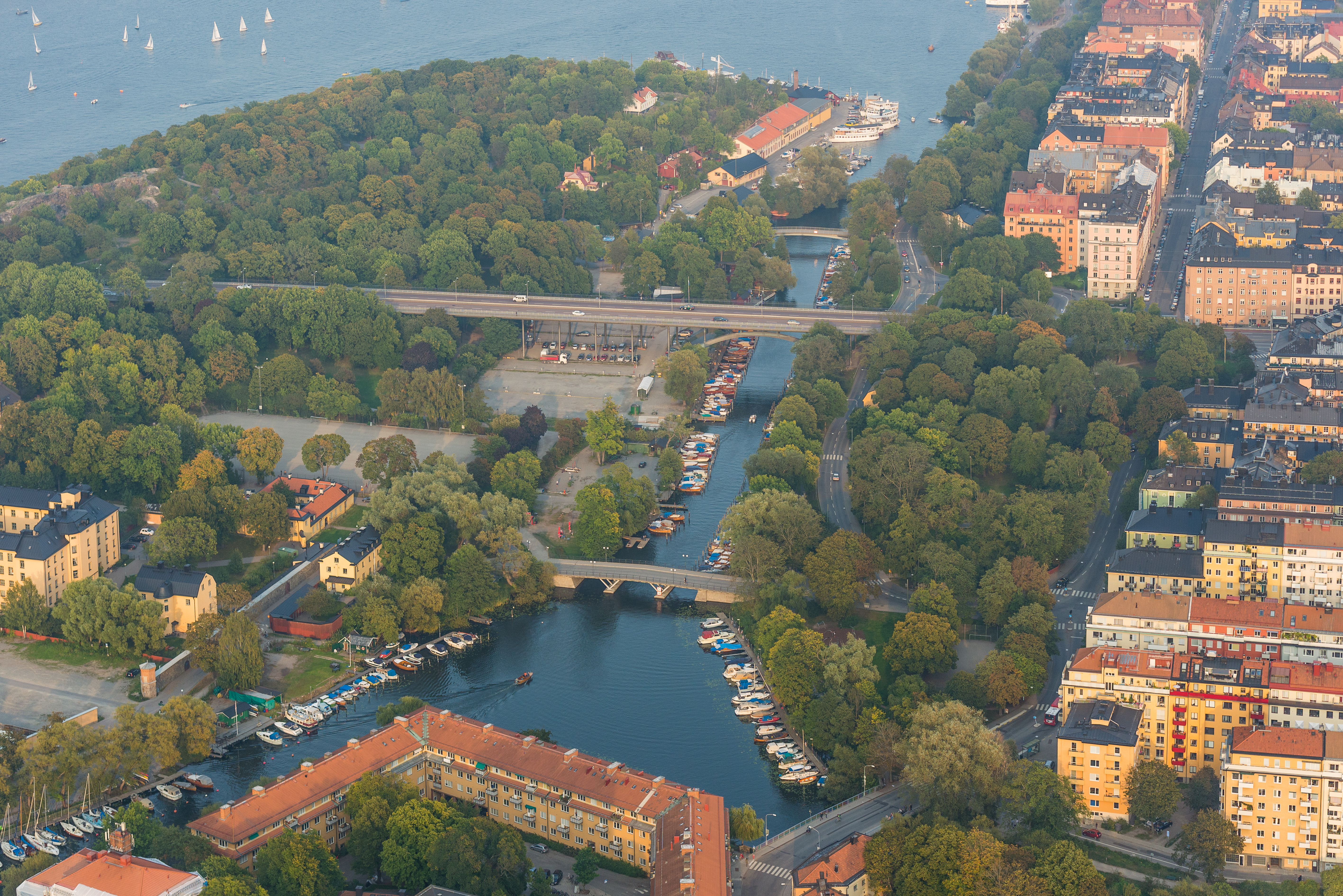 The strait between Långholmen and Södermalm.